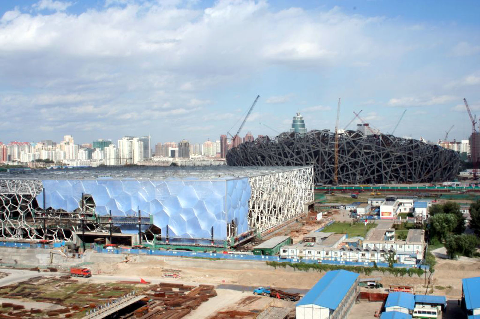 Beijing Olympic Aquatic Centre under construction - blue ETFE foils on a fully welded (no bolts!) steel frame. Beijing main stadium in the background. Aptly named the Birdsnest.